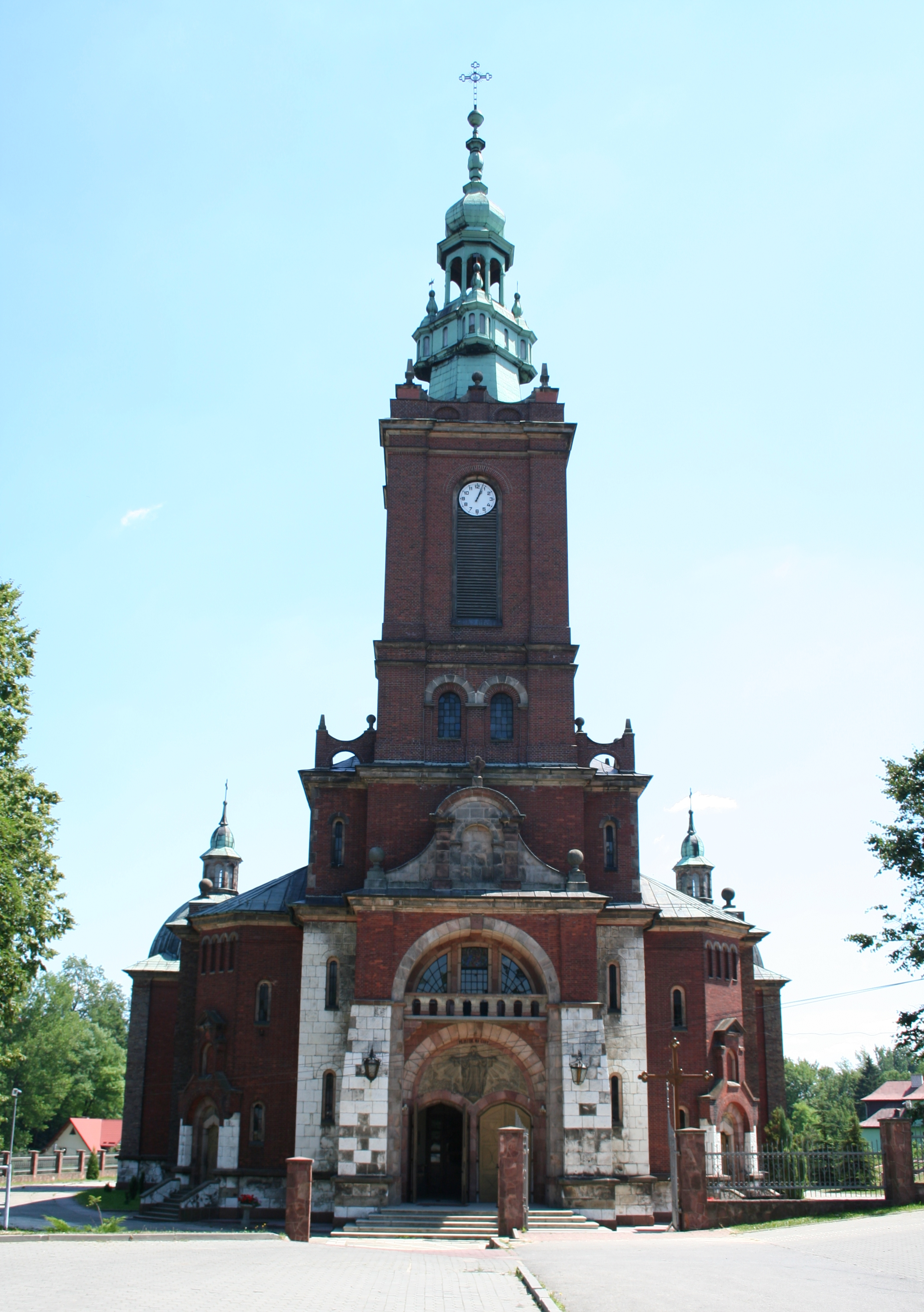 Church of the Holiest Heart of Lord Jesus in Sułoszowa, Poland. Built in 1933-1939